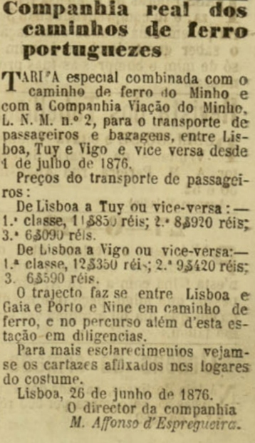 Advertisement of the Companhia Real dos Caminhos de Ferro Portugueses (Royal Company of the Portuguese Railways), for the transport of passengers and luggage from Lisbon, in Portugal, and Vigo, in Spain. The section from Lisbon to Nine was made by train, in cooperation with the Caminho de Ferro do Minho (Minho Railway), and the rest of the travel was by stagecoach. This image was published on the Diario Illustrado newspaper No. 1269, of 28th June 1876, and scanned by the Biblioteca Nacional de Portugal.